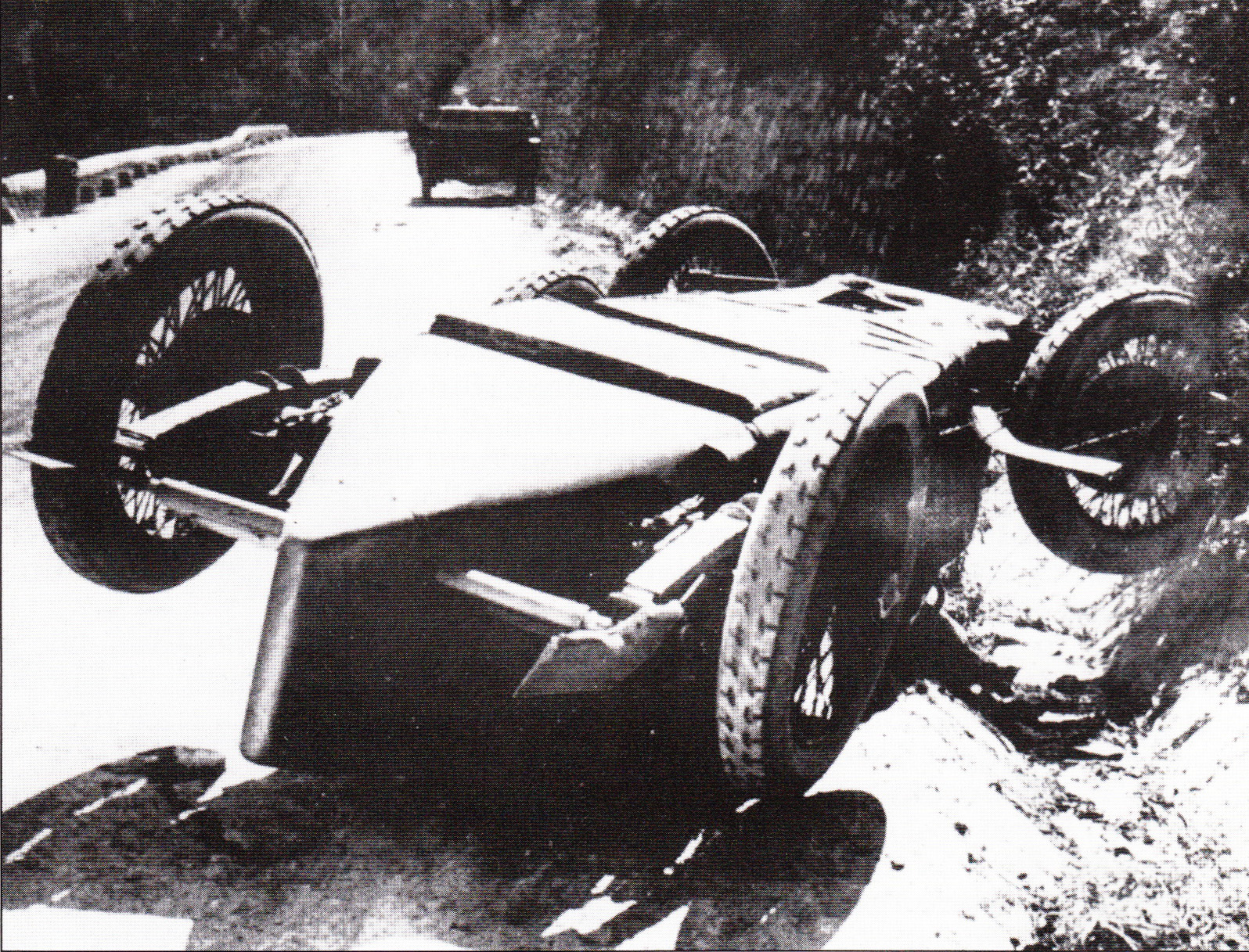 1926- 17° Targa Florio, Giulio Masetti Delage 2LCV